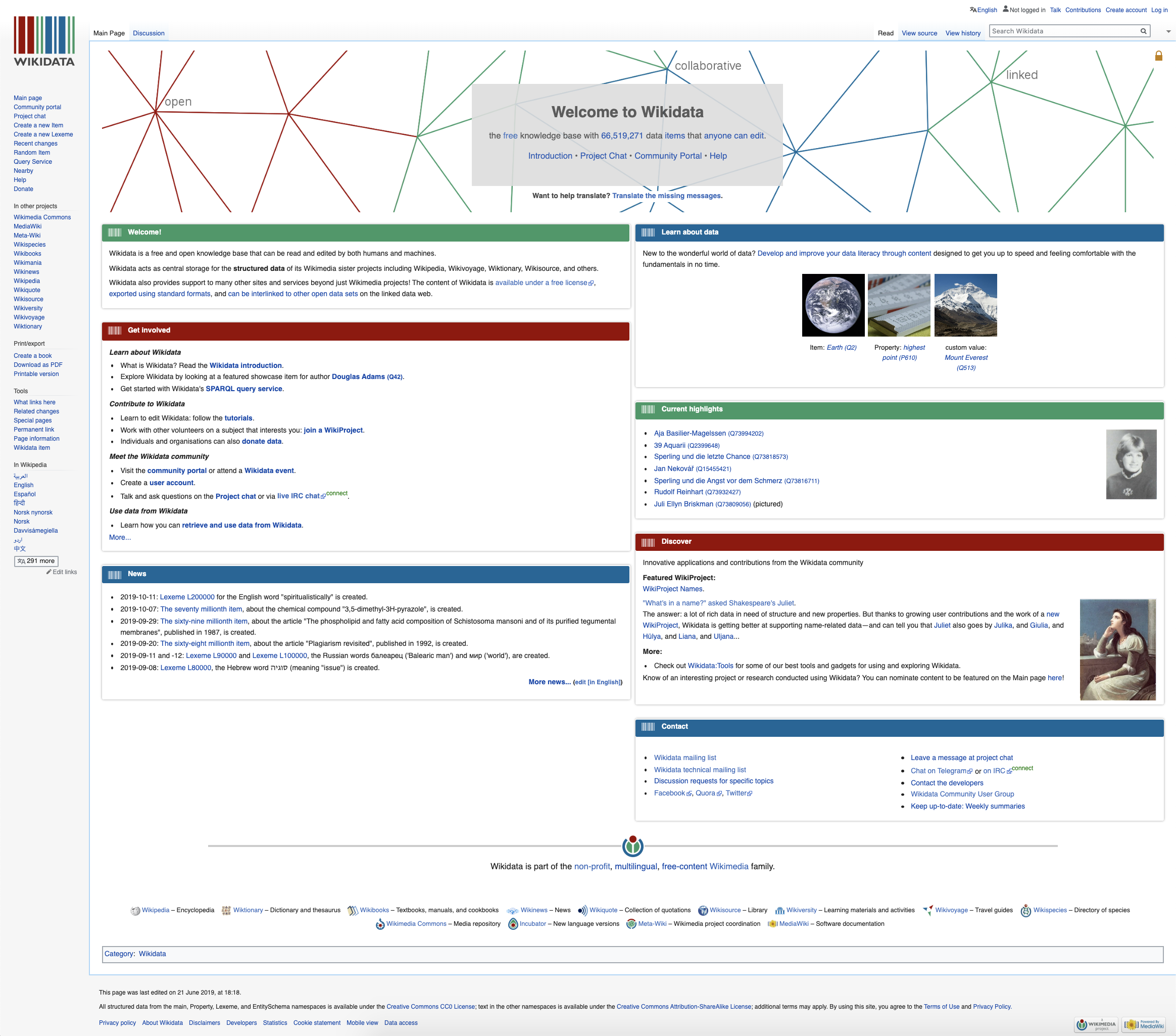 Screenshot of main page of Wikidata